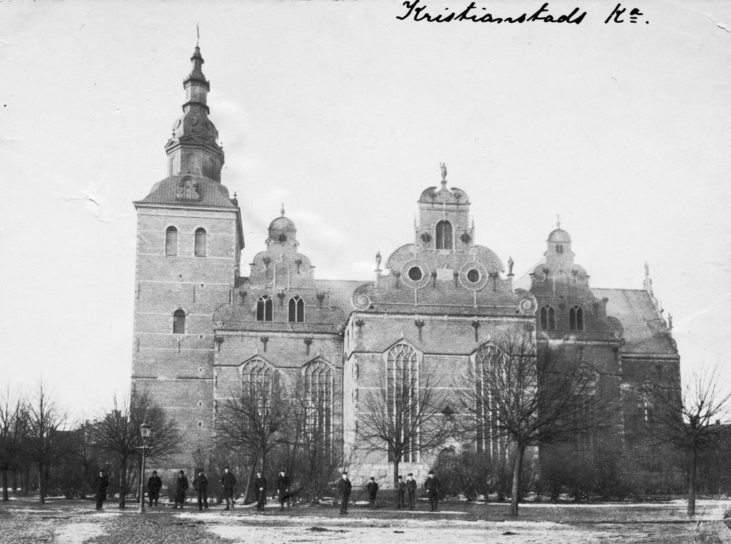 People in front of Heliga Trefaldighet (Holy Trinity) Church in Kristianstad, inaugurated in 1628. View from south.